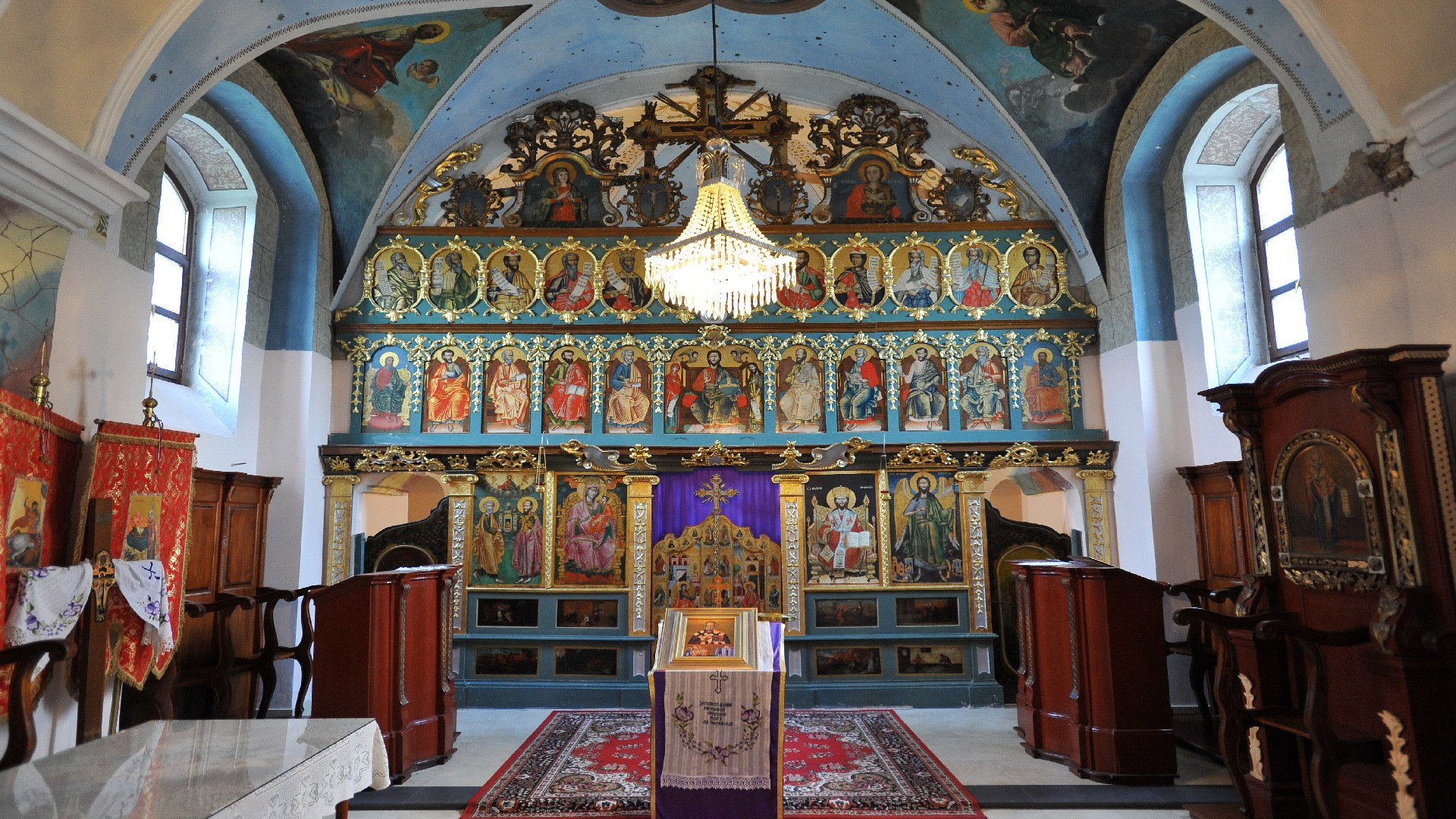 Iconostasis in Church of Saint Nicholas in Sibač- Pećinci